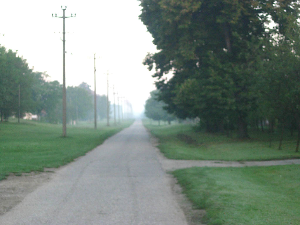 Šušara, little village in the heart of the Deliblato Sands.